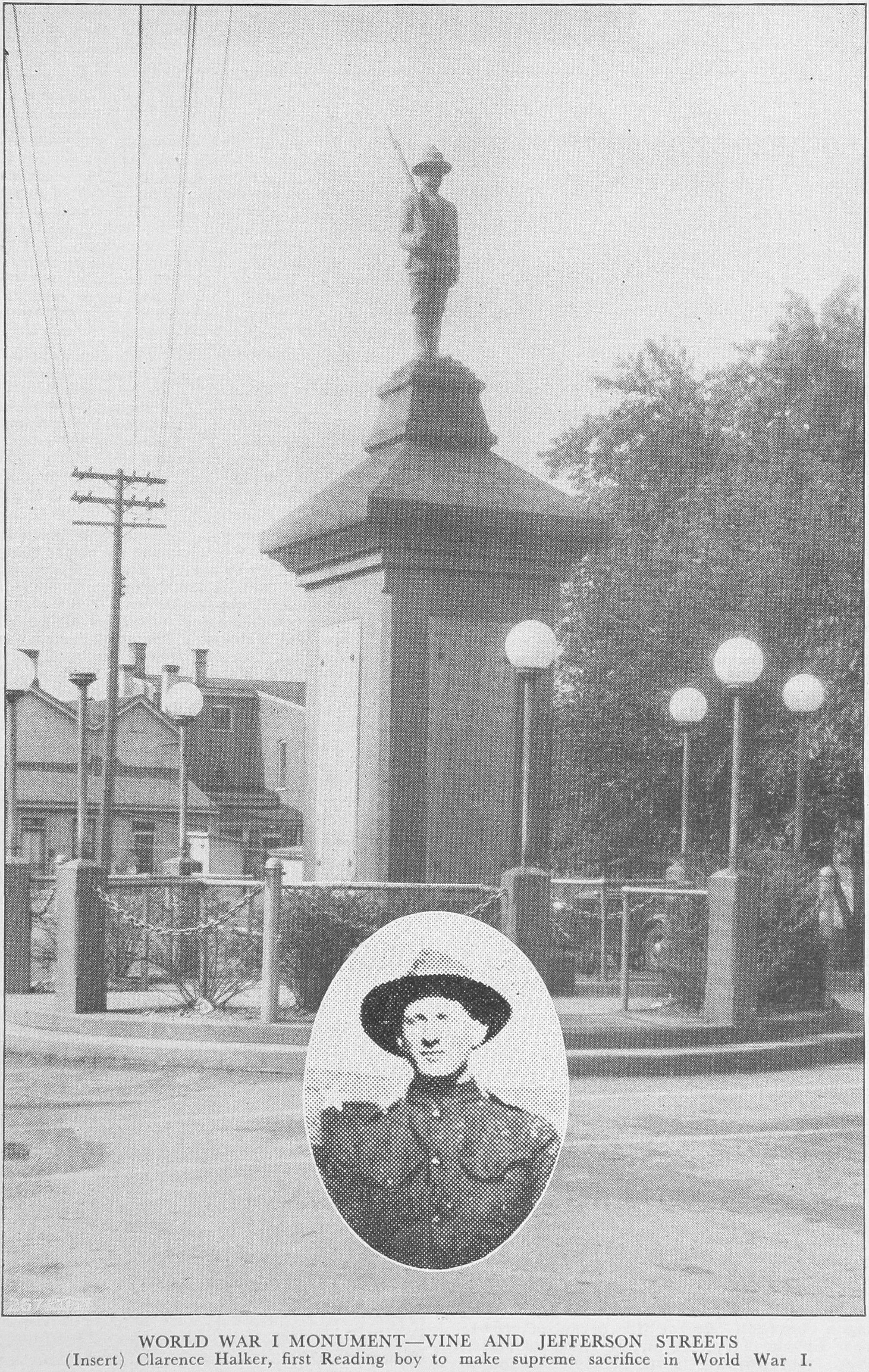 A booklet illustrating the City of Reading, Ohio, on the city’s centennial anniversary in 1951.